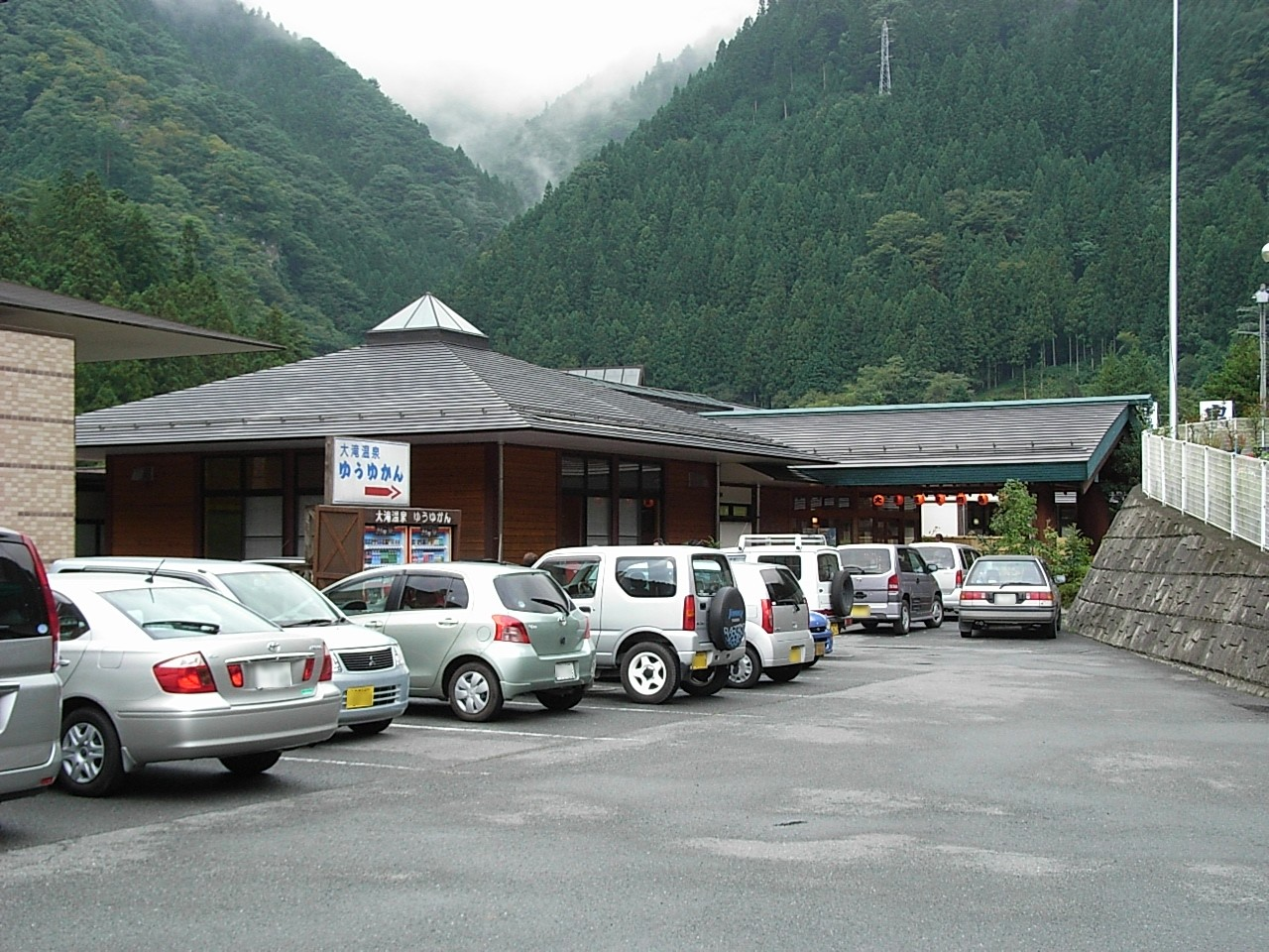 Spa Yuyukan at Michinoeki Otaki Onsen in Saitama Prefecture, Japan